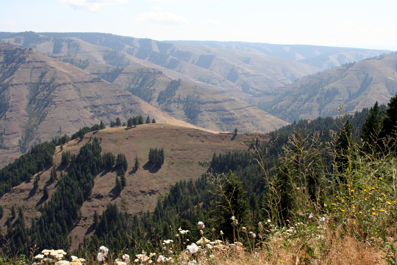 Joseph Canyon, in the extreme northeast part of Oregon.